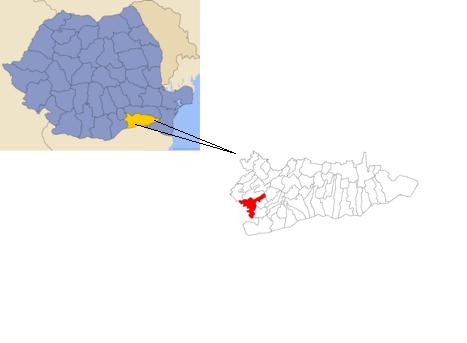 The location of Budeşti within Călăraşi County and of Călăraşi County within Romania.